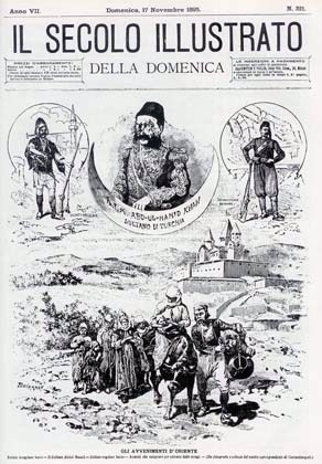 The Armenian Genocide in the Italian newspaper Il Secolo Illustrato